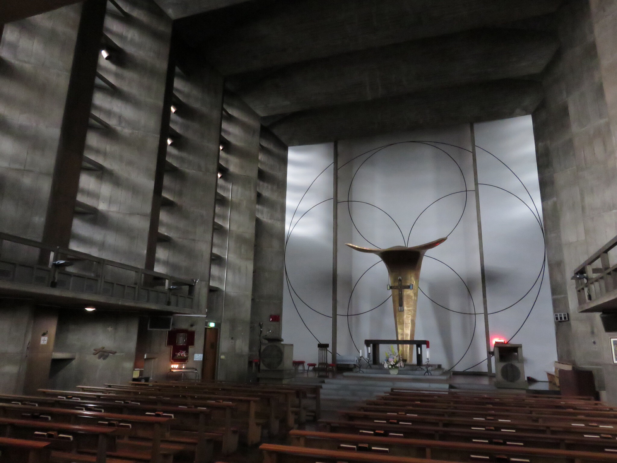 Interior, St. Anselm's Catholic Church, Meguro